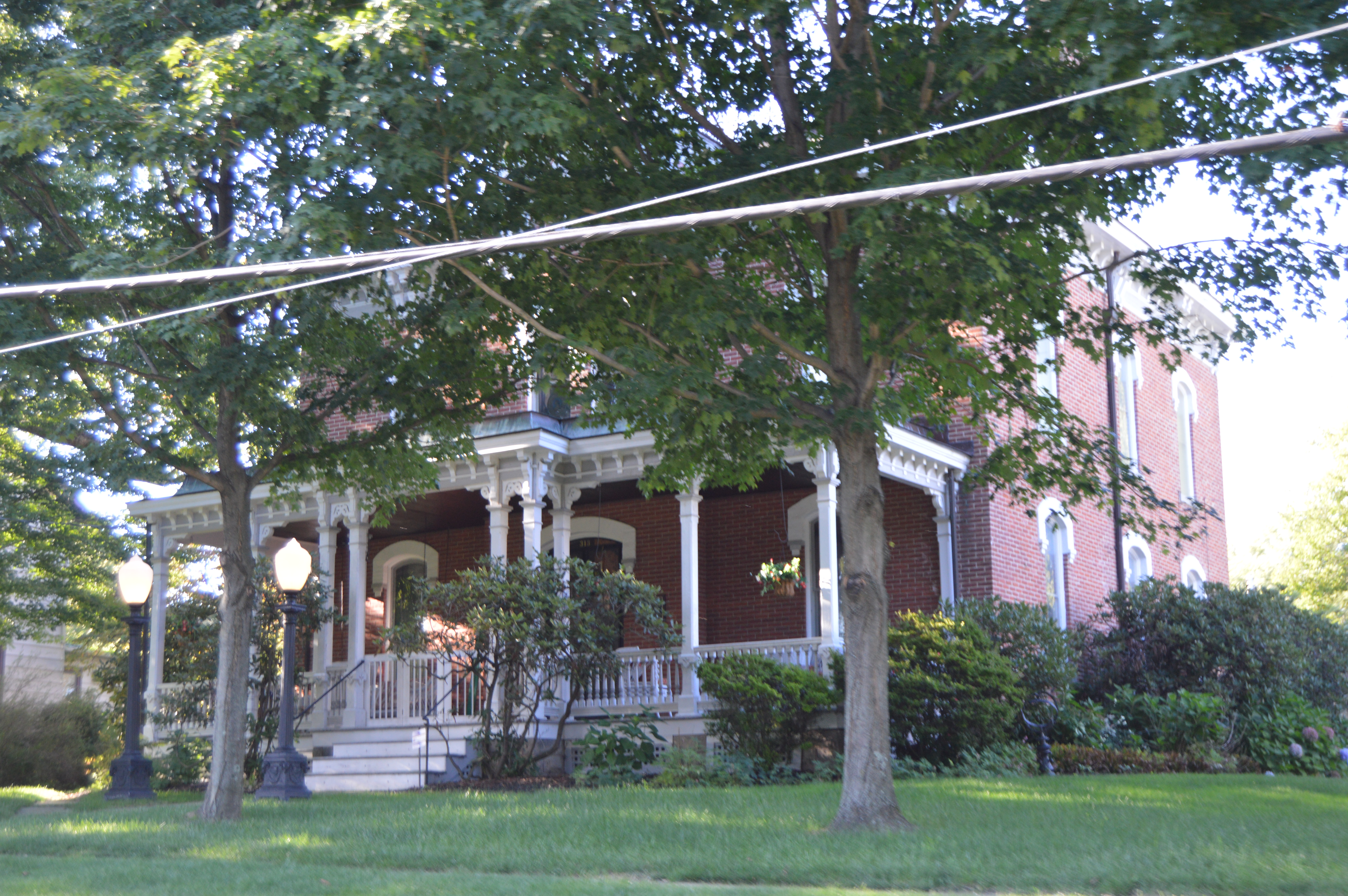 Front and eastern side of the Christiana Lindsey House, located at 313 E. Butler Street in Mercer, Pennsylvania, United States. Built in 1881, it is listed on the National Register of Historic Places.